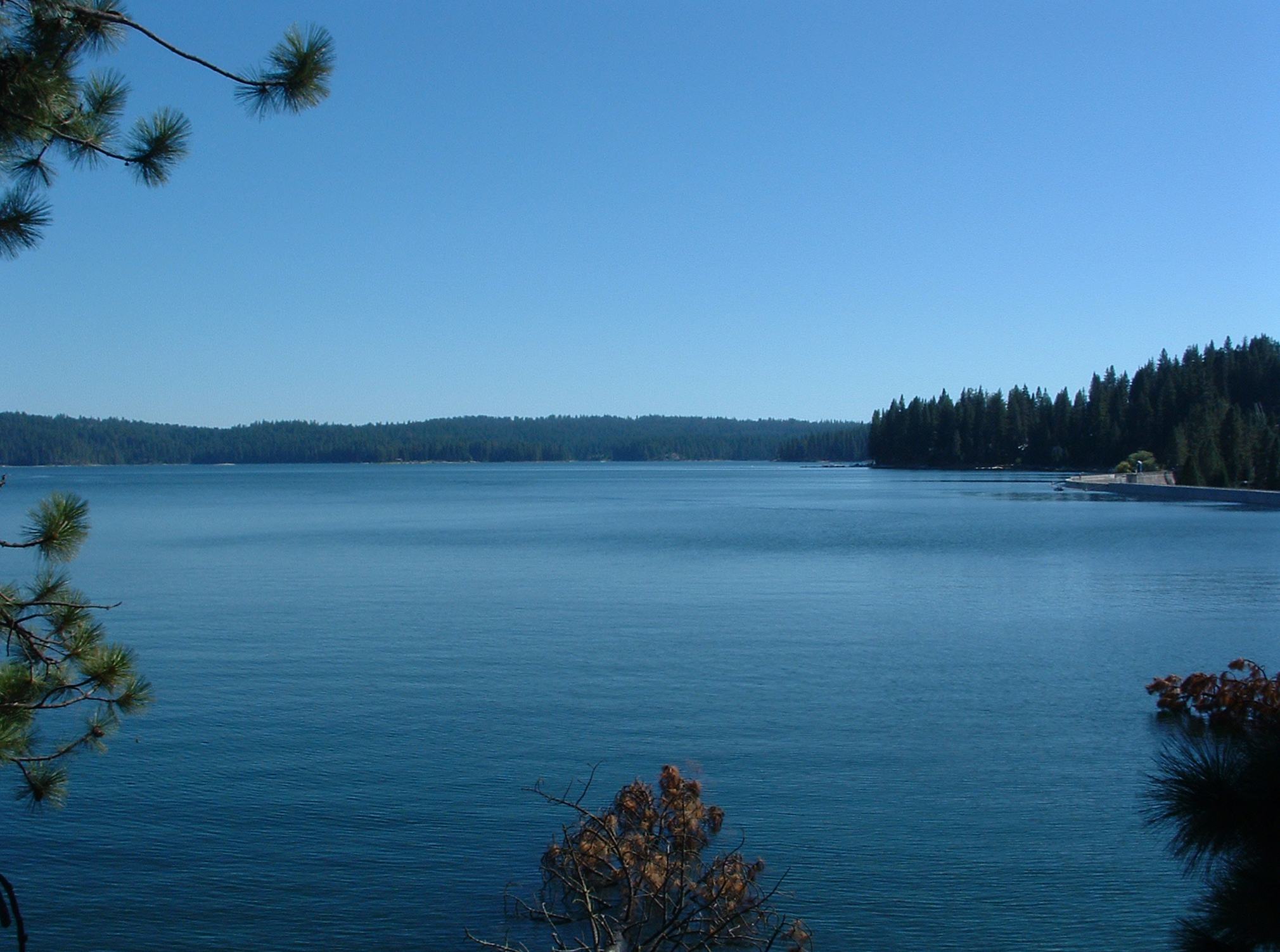 Shaver Lake — a reservoir the Sierra Nevada that's part of the Big Creek Hydroelectric Project, within the Sierra National Forest and Fresno County, California. The town of Shaver Lake is nearby. Credits It was taken by me on September 12, 2003. I give permission for the picture to be used with attribution under the GFDL and Creative Commons.